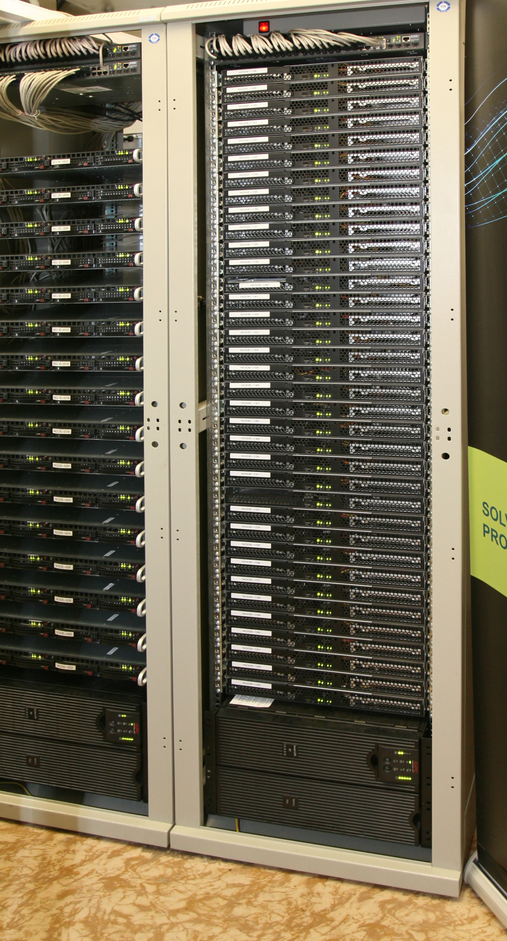 Amalka Supercomputing facility is currentryl the biggest of the three Czech parallel supercomputers. It is used by Department of Space Physic, Institute of Atmospheric Physics, Academy of Sciences of the Czech Republic. The primary task is computation and visualisation in the area of space research for European Space Agency or NASA such as a preparation of Demeter (satellite) launch. The current version runs Linux Slackware and delivers 6.38 TFlops.